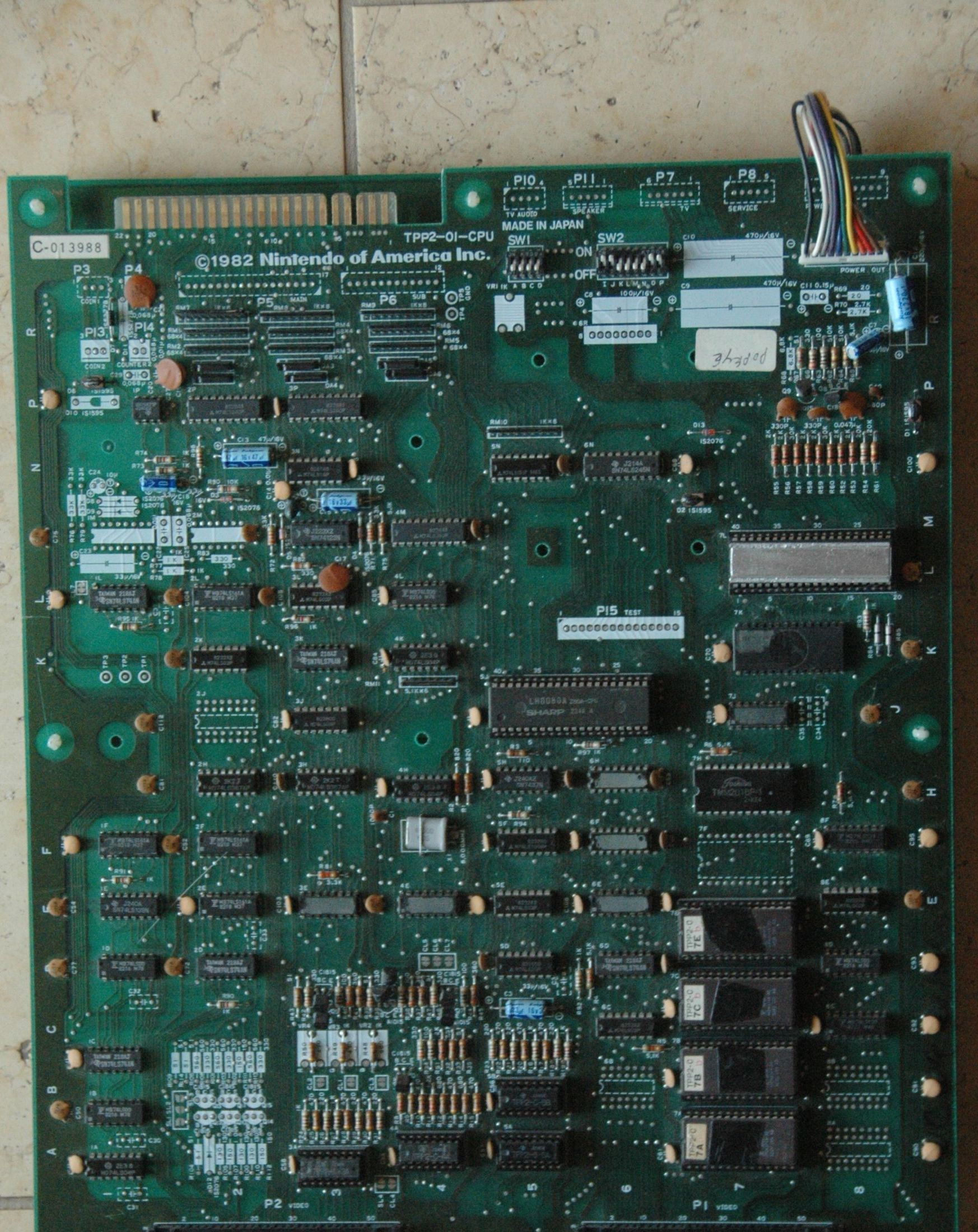 Nintendo Popeye main board